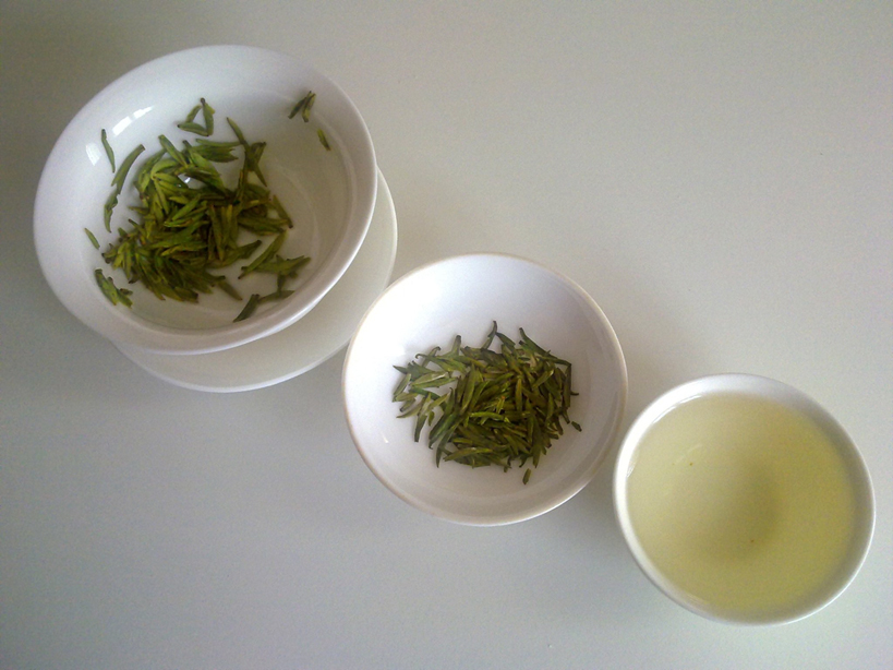 The appearance of green tea at three different stages (from left to right): the infused leaves, the dry leaves, and the liquor. This particular green tea is Xu Fu Long Ya, a fine Chinese green tea from Sichuan. This is a representational visual reference of a large percentage of fine Chinese green tea, though there are varieties that can be different. The infusion colour is a result of a 1.5 minute duration, at 1 g of leaves to 100 ml of water at 70°C.